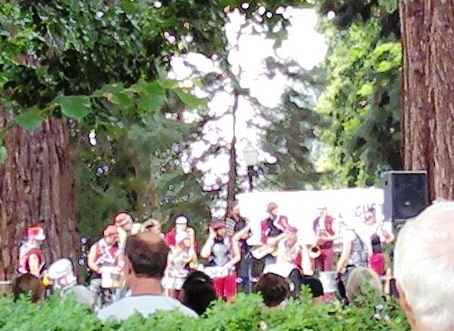 The MarchFourth Marching Band performing in Hillsboro, Oregon, at the Tuesday Marketplace.